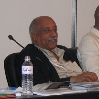 Mulatu Astatke at WSIS! Cropped by Magnus Manske 19:00, 30 September 2007 (UTC)